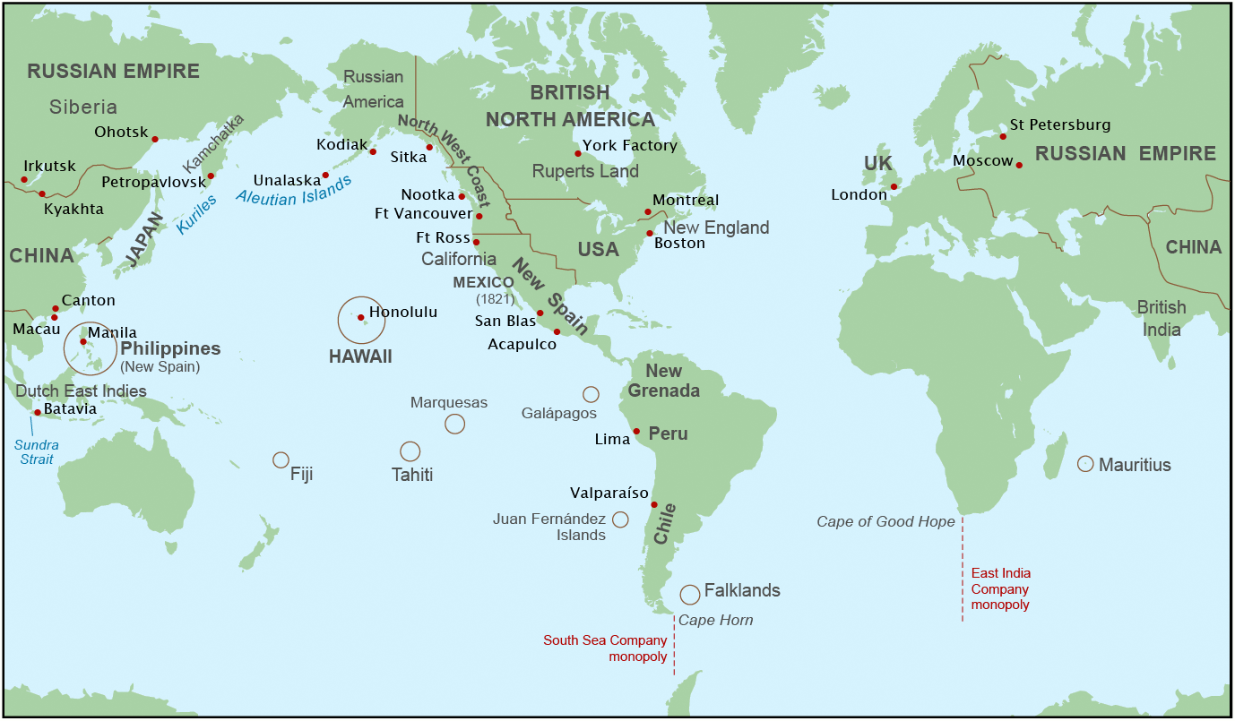 World map showing the context of the Maritime Fur Trade era, circa 1790 to 1840. Main sources consulted include: Gibson, James R. (1992). Otter Skins, Boston Ships, and China Goods: The Maritime Fur Trade of the Northwest Coast, 1785-1841. McGill-Queen's University Press. ISBN 0-7735-2028-7 Gibson, James R. (1997). The Lifeline of the Oregon Country: The Fraser-Columbia Brigade System, 1811-47. University of British Columbia (UBC) Press. ISBN 0774806435 Haycox, Stephen W. (2002). Alaska: An American Colony. University of Washington Press. ISBN 9780295982496 Hayes, Derek (1999). Historical Atlas of the Pacific Northwest: Maps of exploration and Discovery. Sasquatch Books. ISBN 1-57061-215-3 Mackie, Richard Somerset (1997). Trading Beyond the Mountains: The British Fur Trade on the Pacific 1793-1843. Vancouver: University of British Columbia (UBC) Press. ISBN 0-7748-0613-3